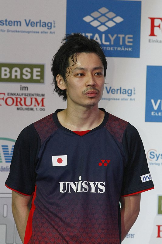 Shintaro Ikeda